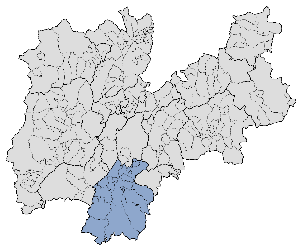 Location map of "Comunità della Vallagarina" (10)